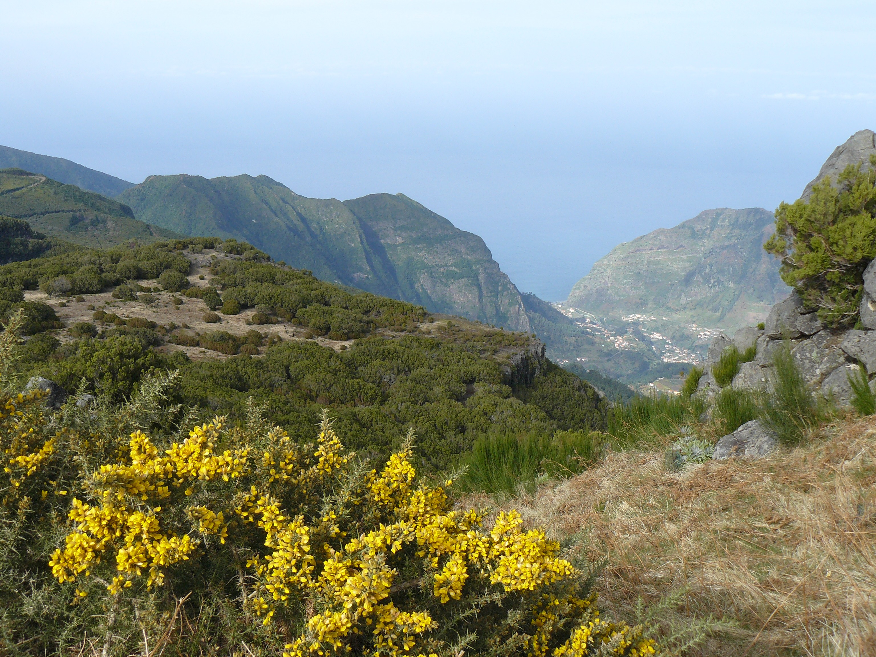 View from Bica da Cana (Madeira, Portugal)